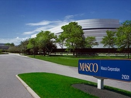 Headquarters of Masco Corporation, located at 21001 Van Born Road in Taylor, Michigan.